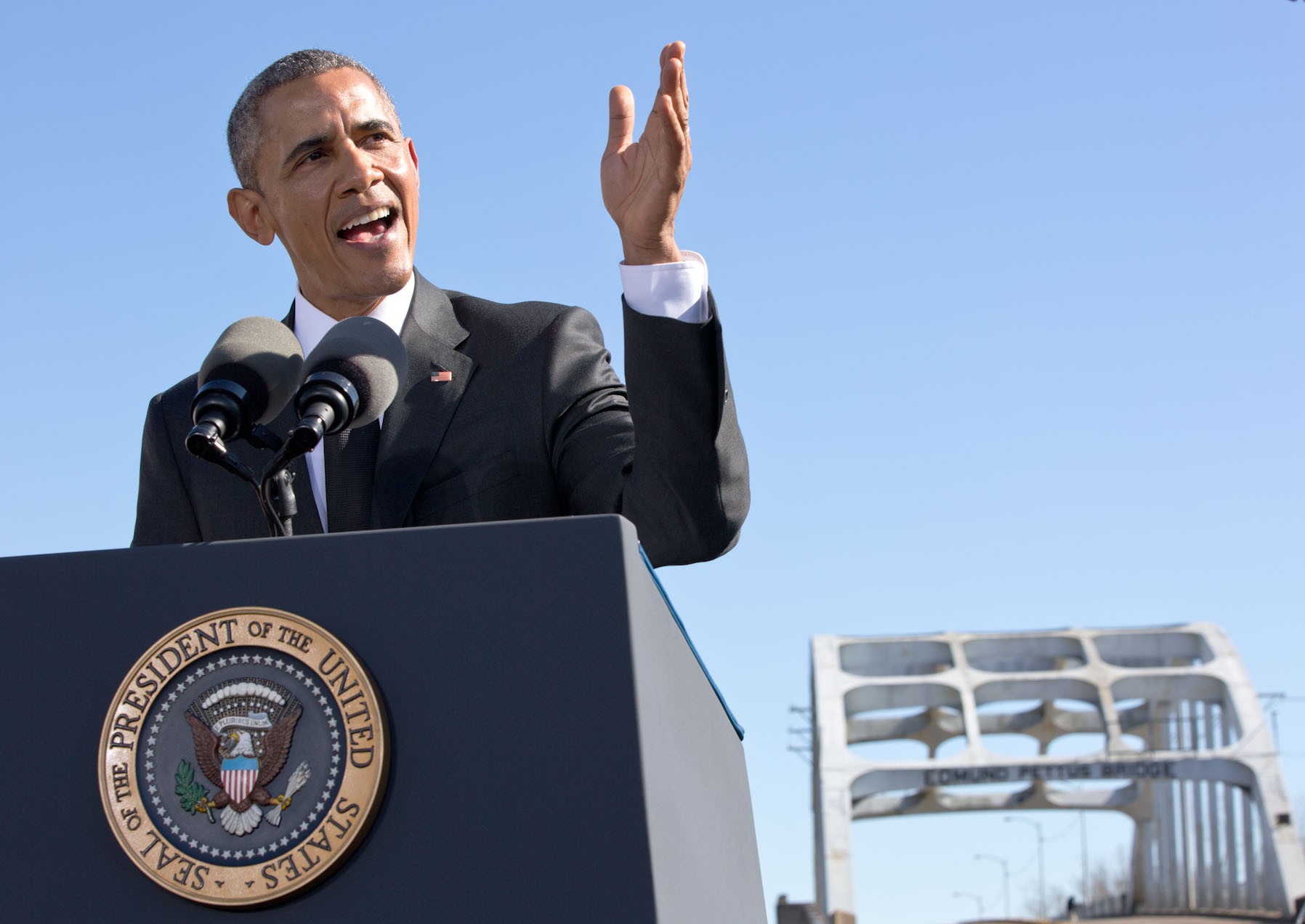 President Barack Obama makes remarks at the foot of the Edmund Pettus Bridge to commemorate the 50th Anniversary of the "Bloody Sunday" march from Selma to Montgomery, in Selma, Alabama, Saturday, March 7, 2015. (Official White House Photo by Pete Souza)